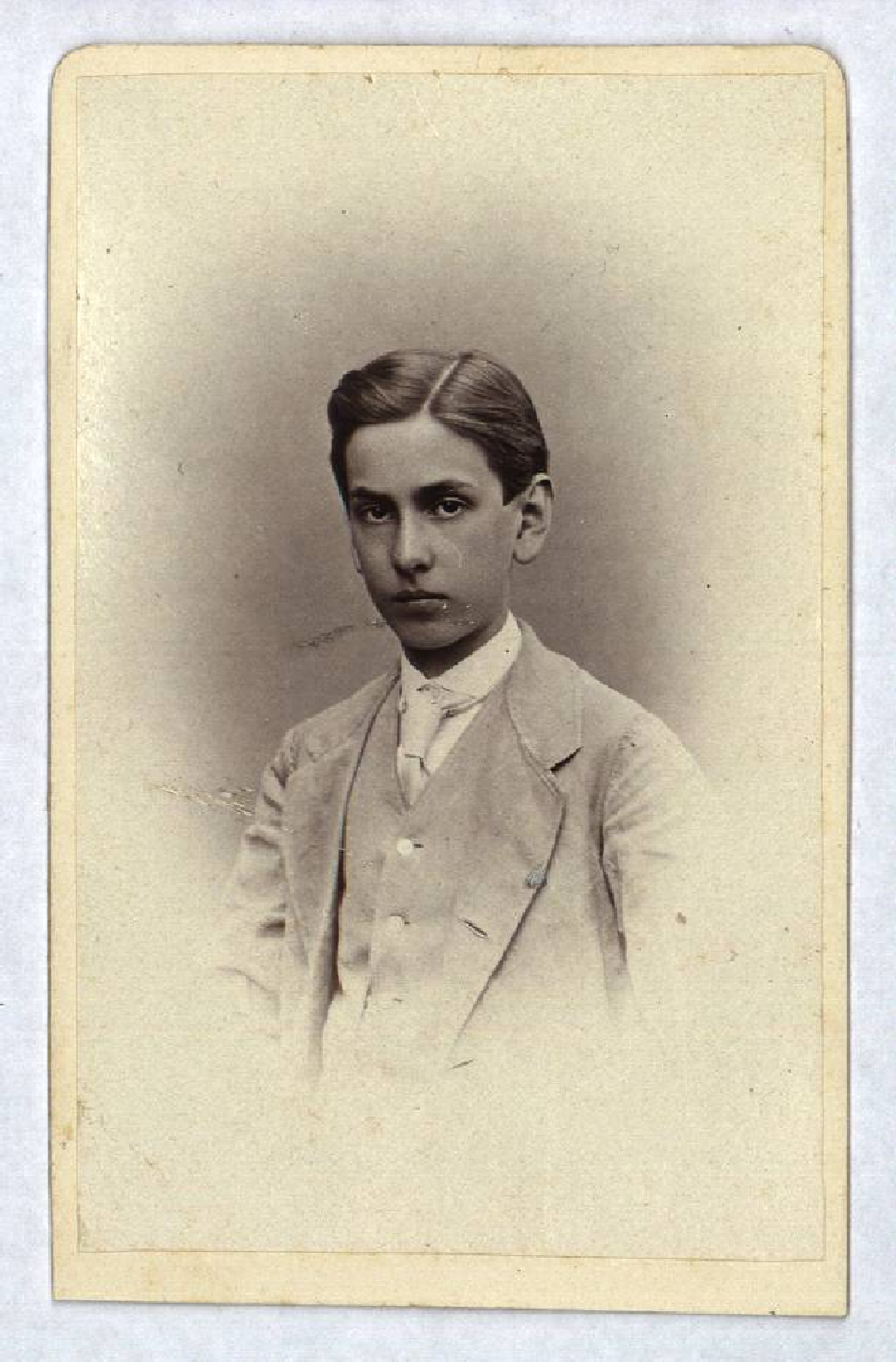 Prince Louis of Battenberg, 1st Marquess of Milford Haven as a boy